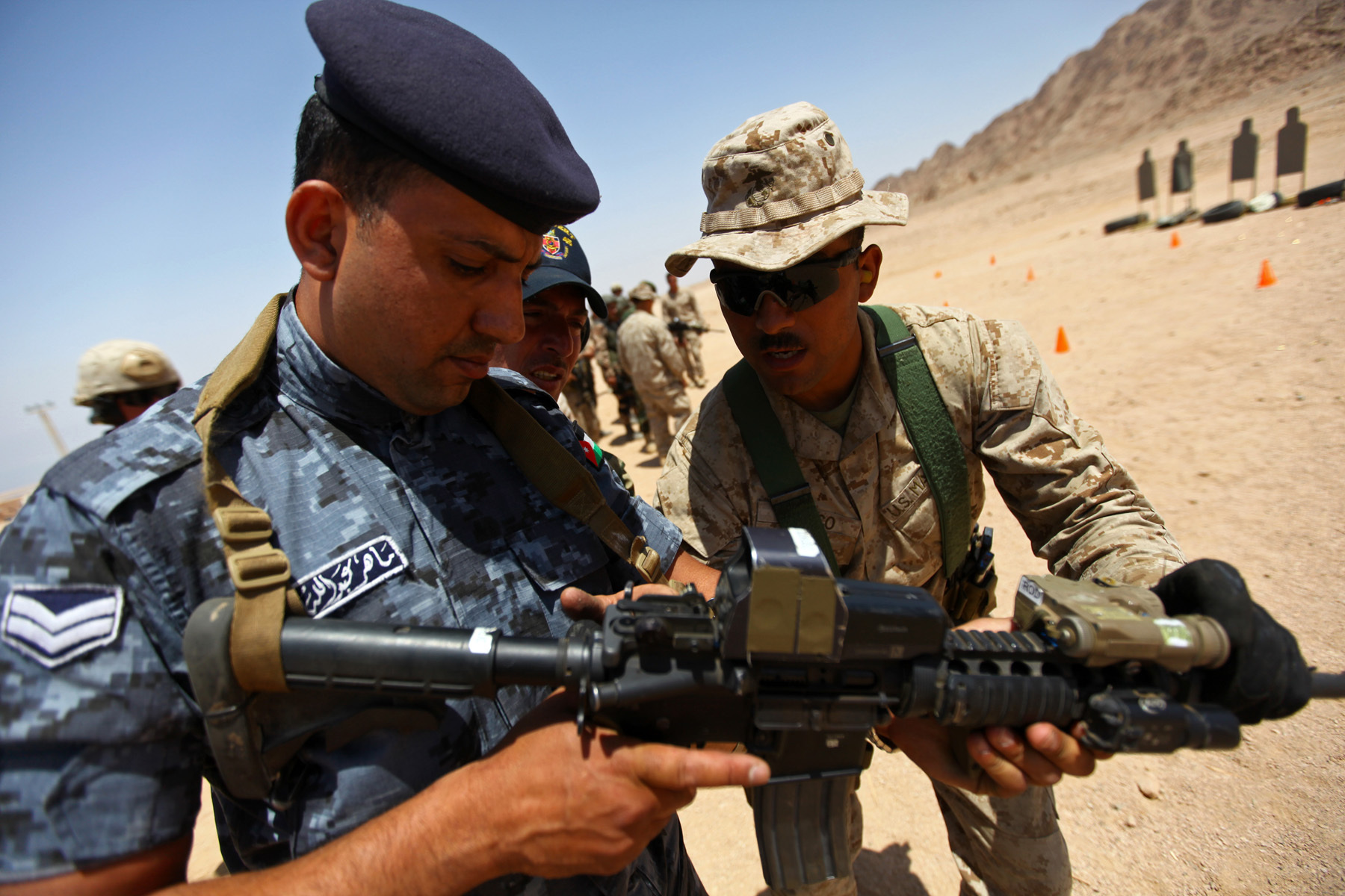 U.S. Marine Corps Staff Sgt. Jaime Orozco, right, a radio team operator with the 24th Marine Expeditionary Unit's Maritime Raid Force, assists a Jordanian marine with a weapon inspection before an advanced combat marksmanship exercise as part of exercise Eager Lion 2012 in Titin, Jordan, May 13, 2012. Eager Lion is a U.S. Central Command-directed, irregular warfare-themed exercise focusing on missions the United States and its coalition partners might perform in support of global contingency operations. (DoD photo by Cpl. Michael Petersheim, U.S. Marine Corps /Released)